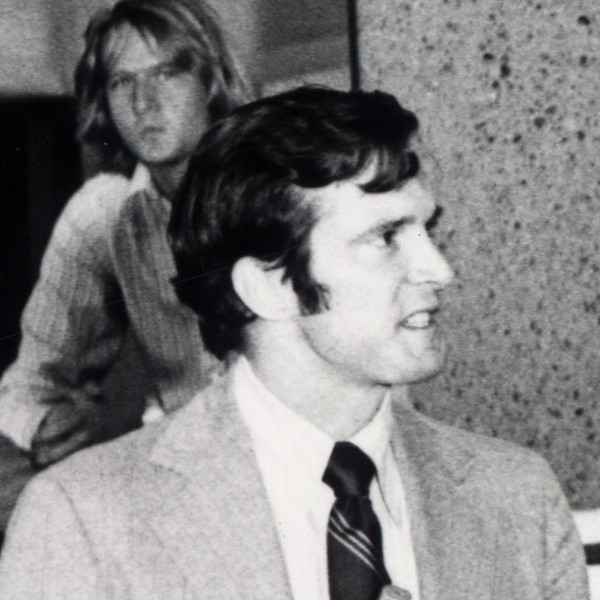 Alumnus; Mayor, Houston